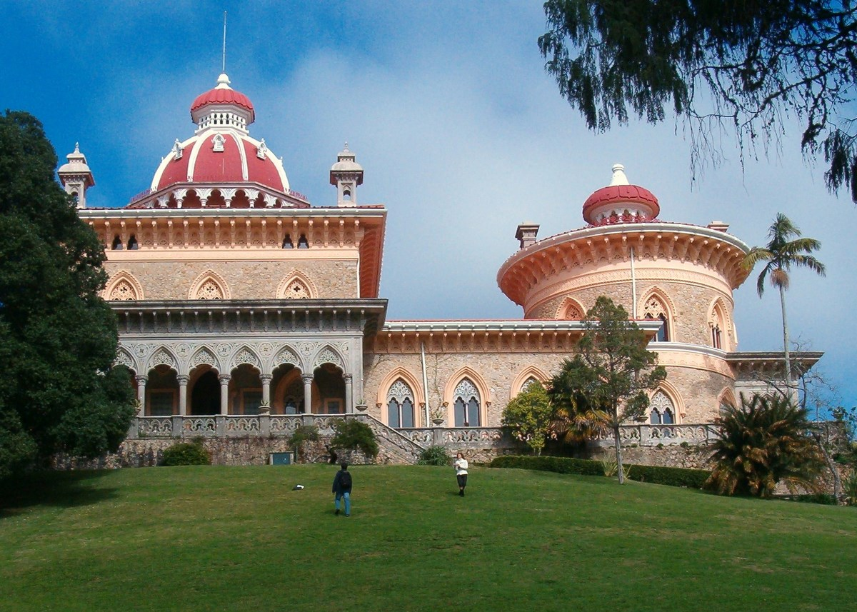 Palácio de Monserrate